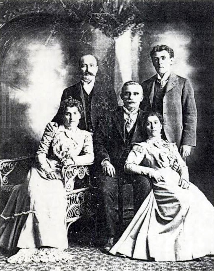 Ibrahim George Kheiralla (center) with his daughters (left to right) Nabiha and Labiba, his son George (right) and Amir Shehab (Nabiha's husband).